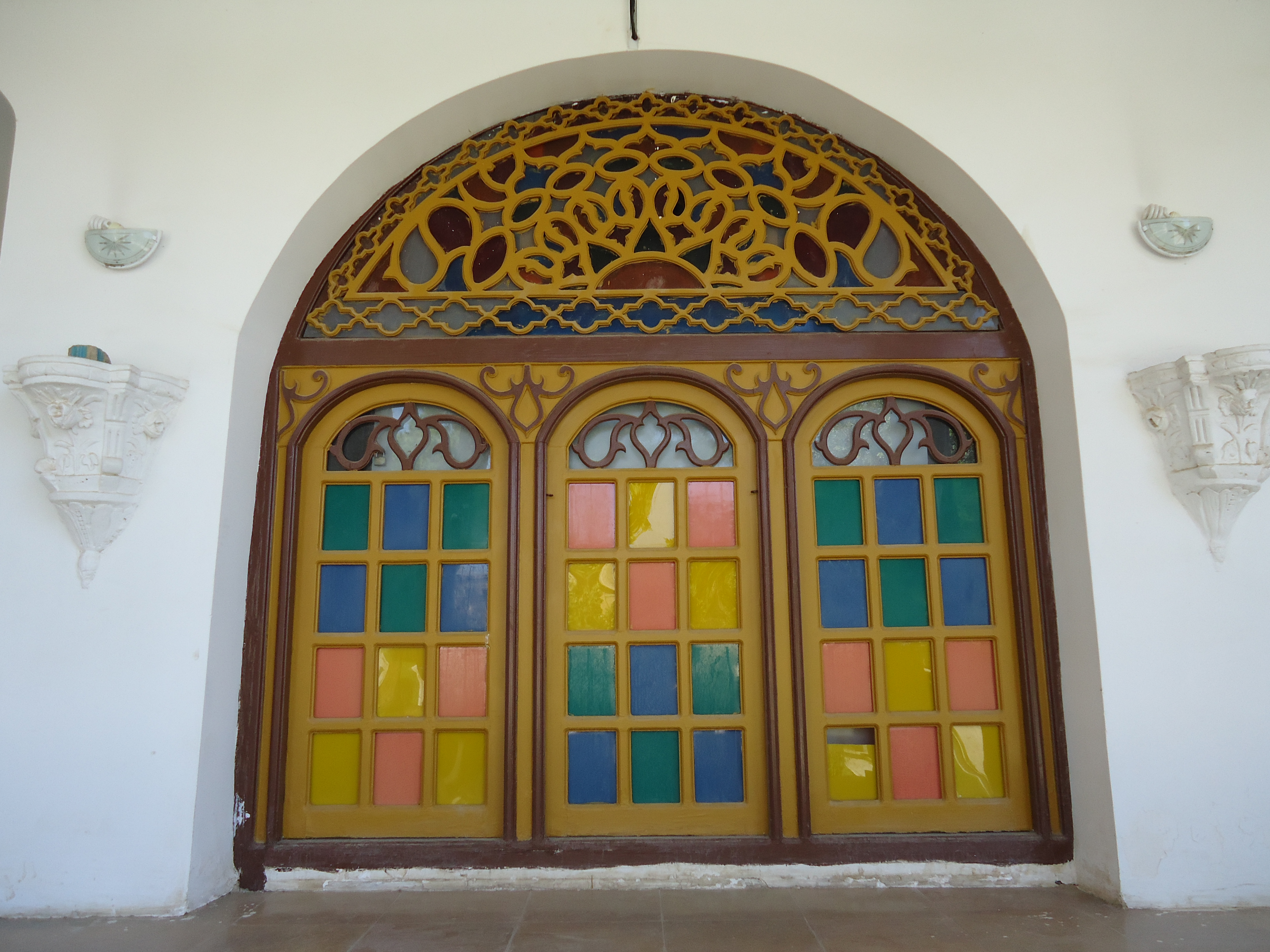 Wali castle in Ilam - Iran